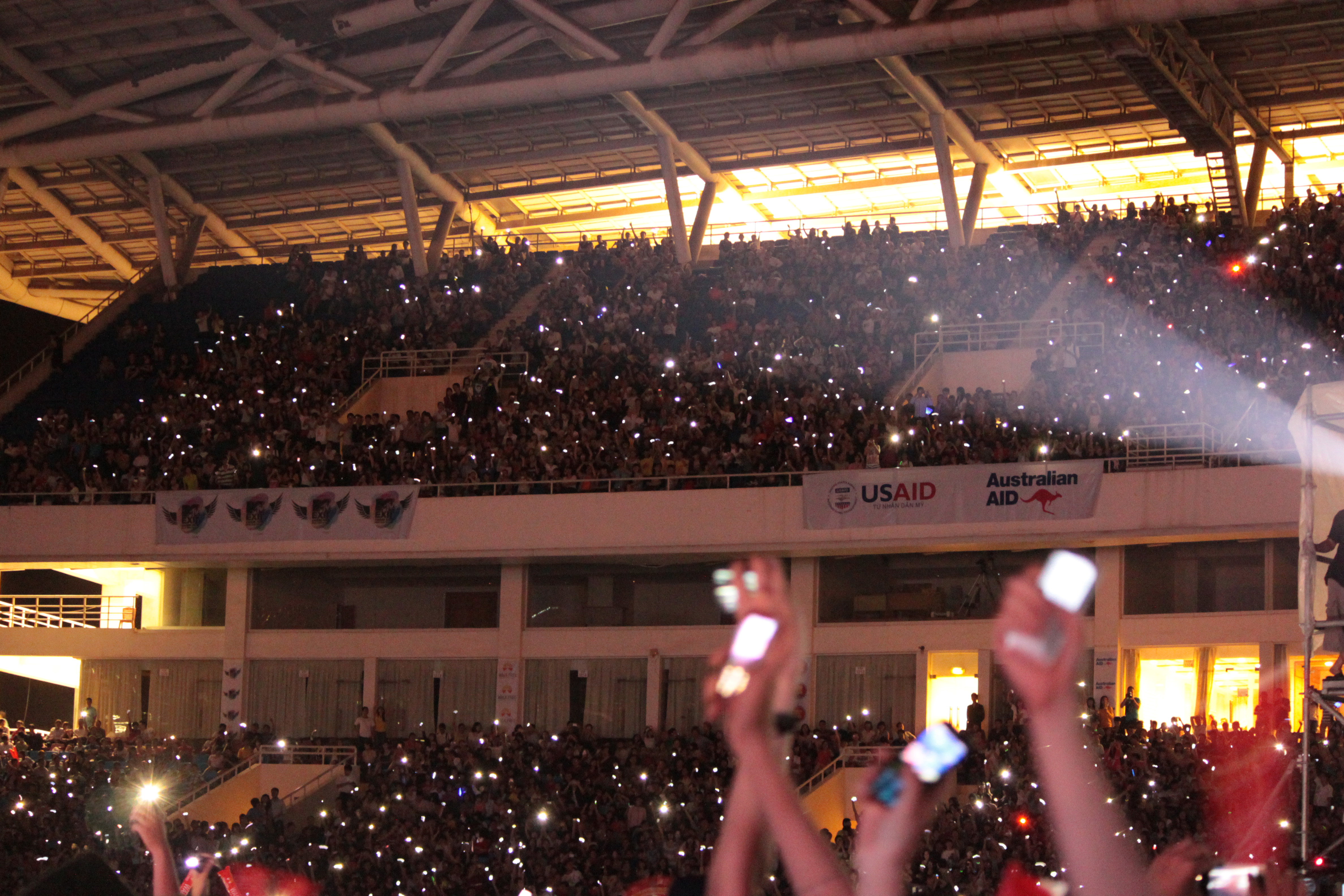 A great concert that attracts 40,000 fans in My Dinh Stadium in Hanoi with strong messages against human trafficking